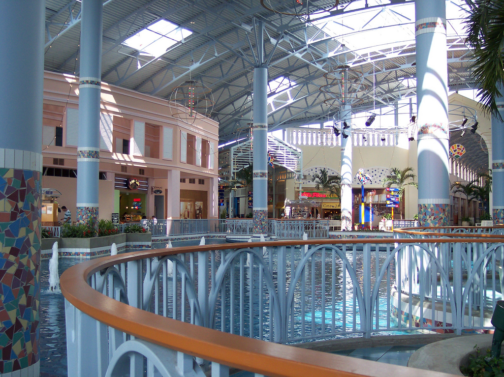 Festival Bay Mall in Orlando, Florida taken Summer 2006.